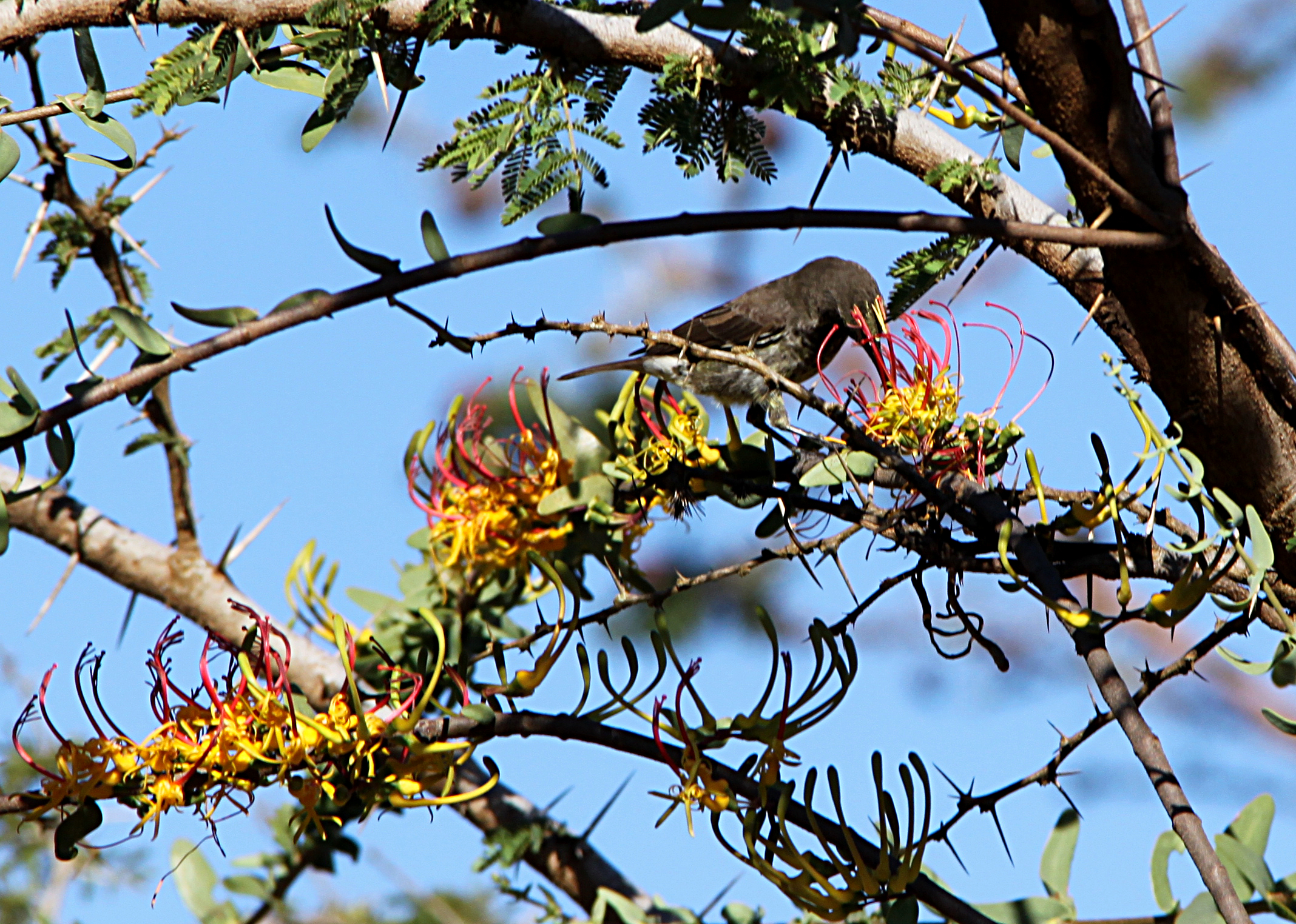 The showy mistletoe Plicosepalus sagittifolius, parasitising on Acacia drepanolobium, with one of its polinators, a female Chalcomitra senegalensis, photographed along the Nairobi-Mombasa road, in Makueni County